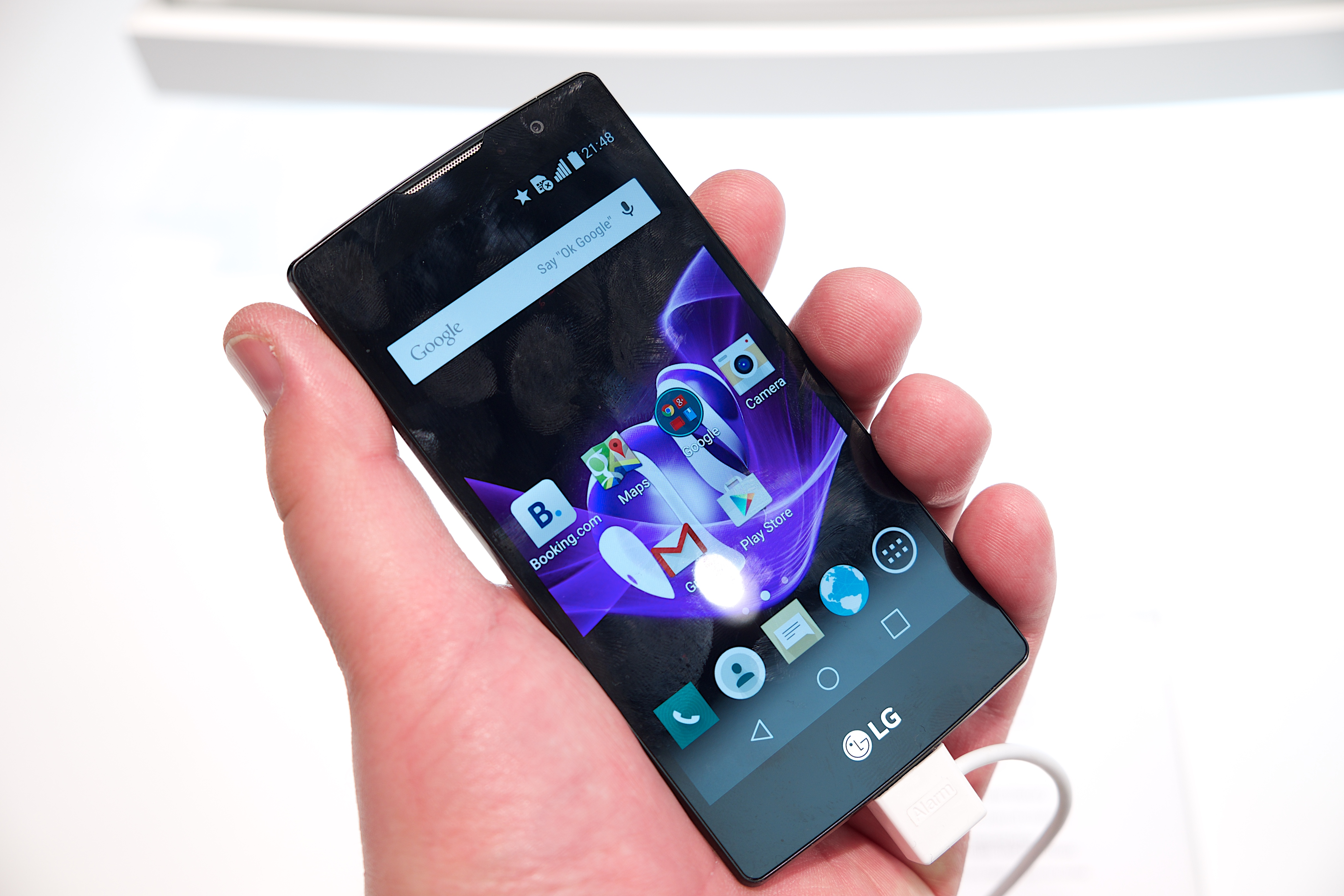 LG Spirit at Mobile World Congress 2015 Barcelona